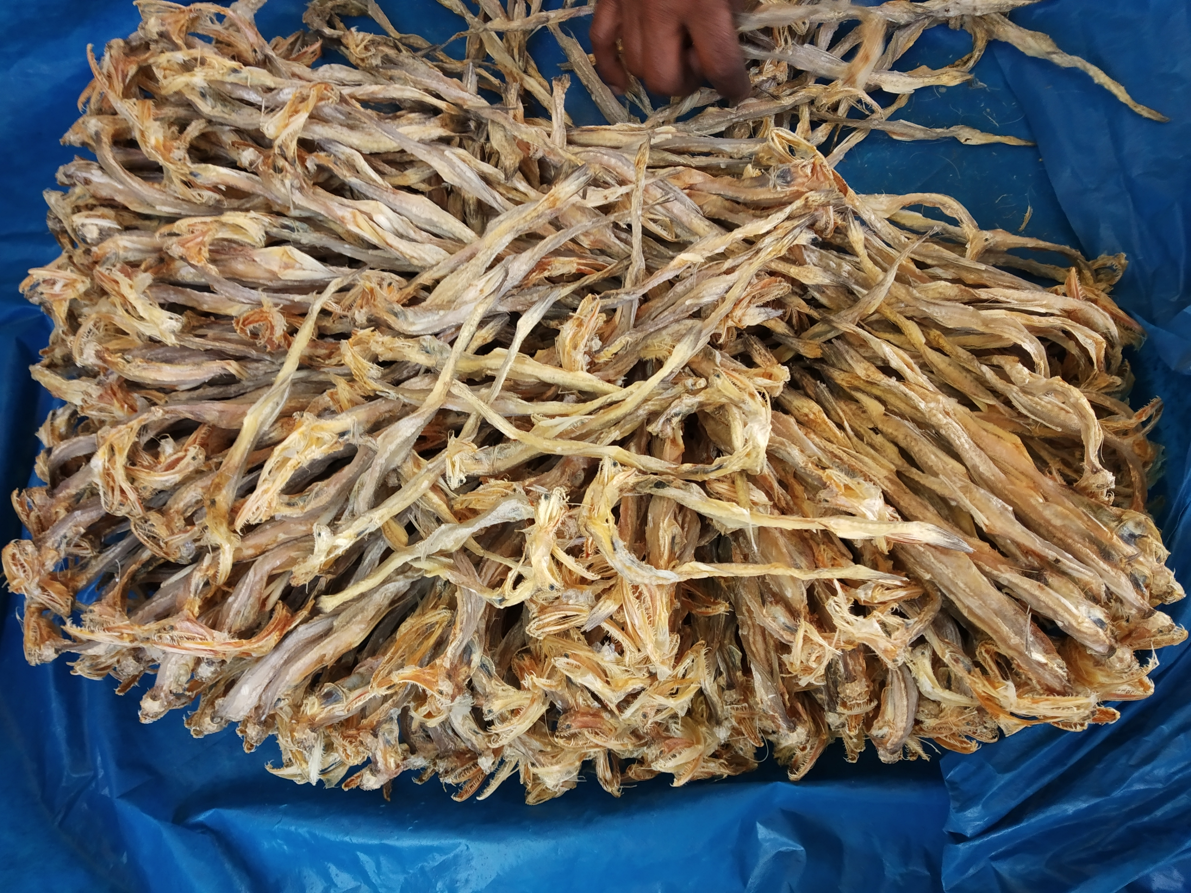 this is a type of fish.